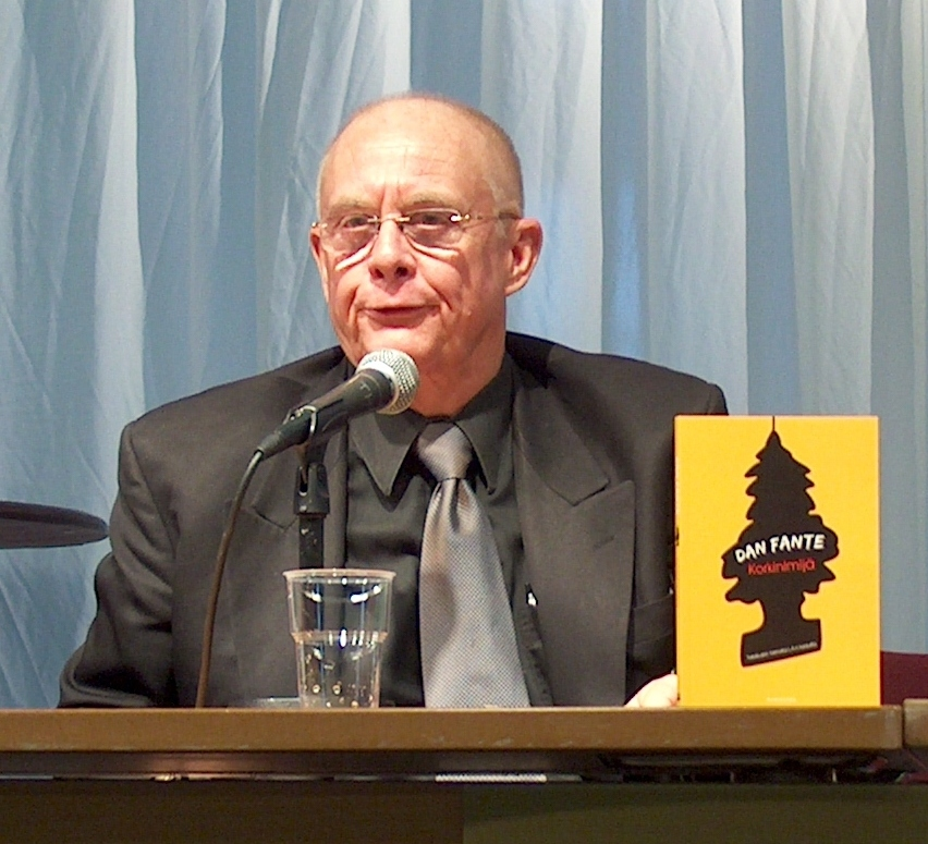 Dan Fante speaking at The Book Fair in Turku Finland 2007